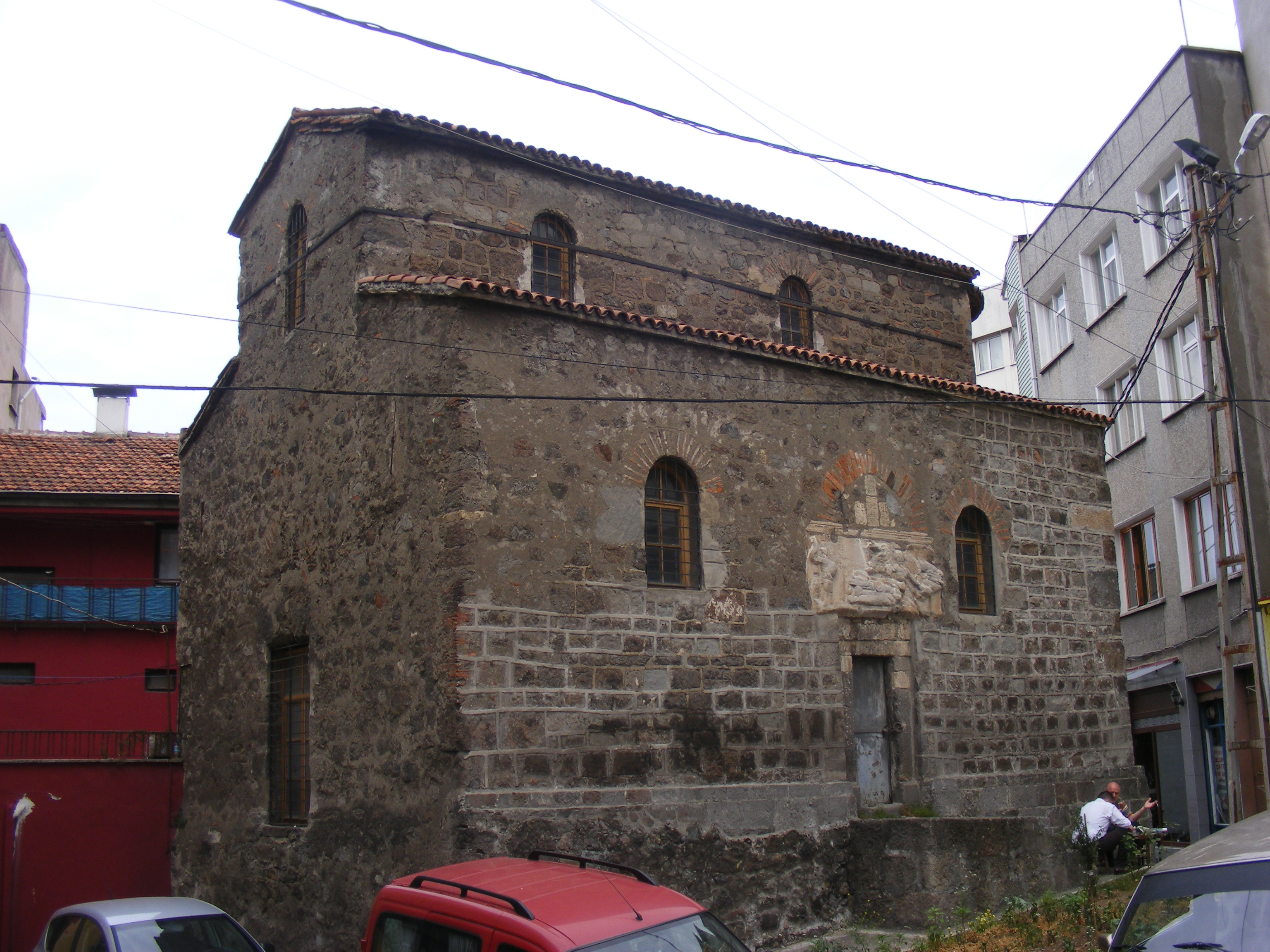 Hagia Anna church in Trabzon